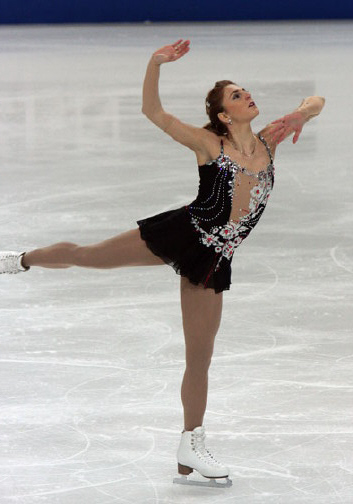 2009 European Figure Skating Championships - Júlia Sebestyén